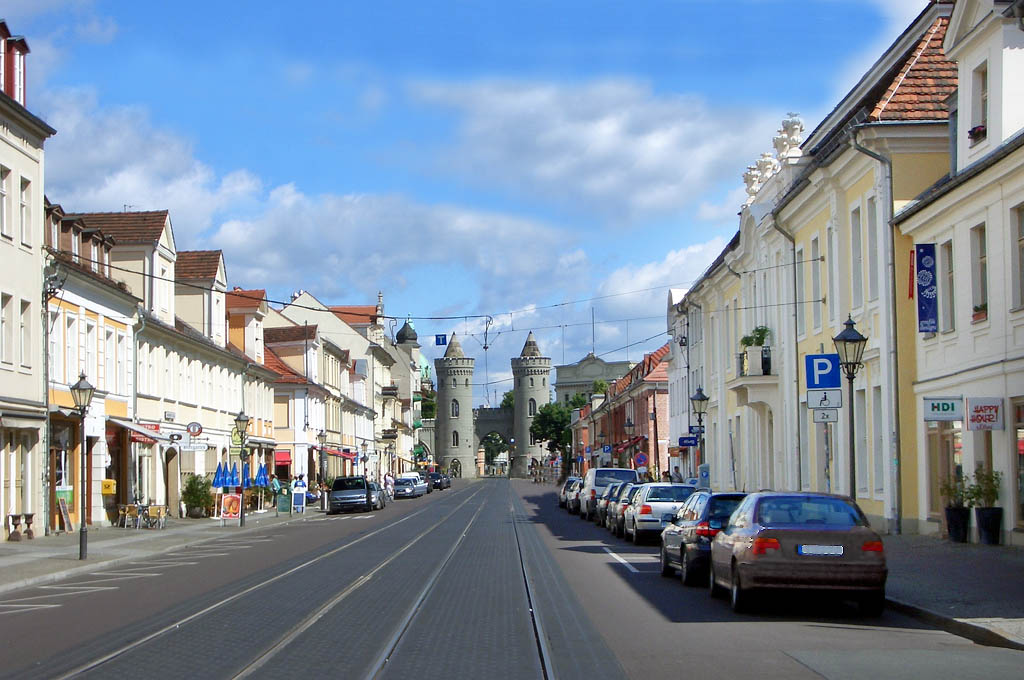 View to the city gate „Nauener Tor“ in Potsdam, Germany.